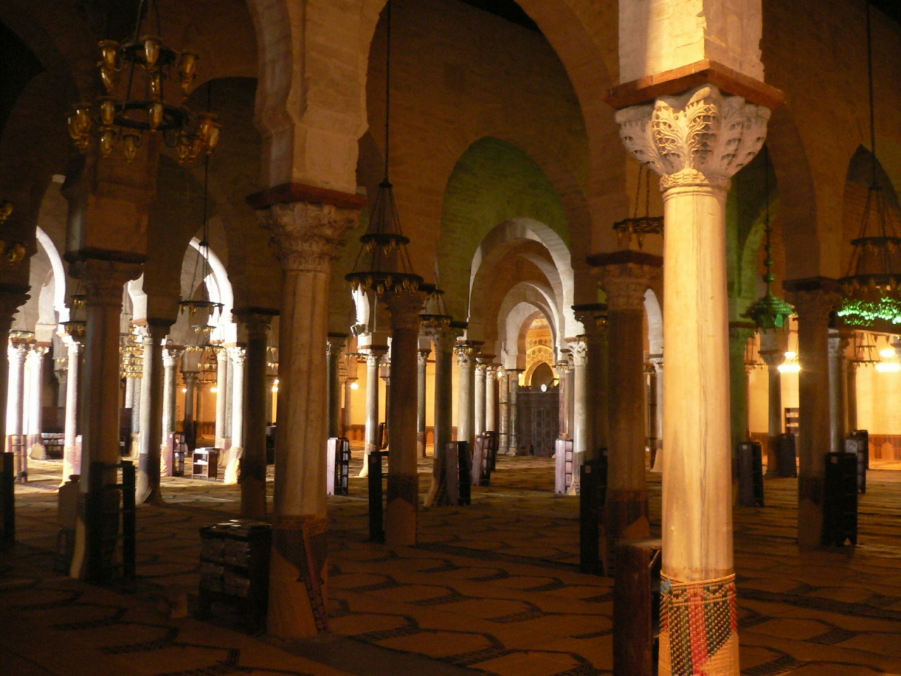 Columns of the prayer hall of the Great Mosque of Kairouan, in Tunisia.